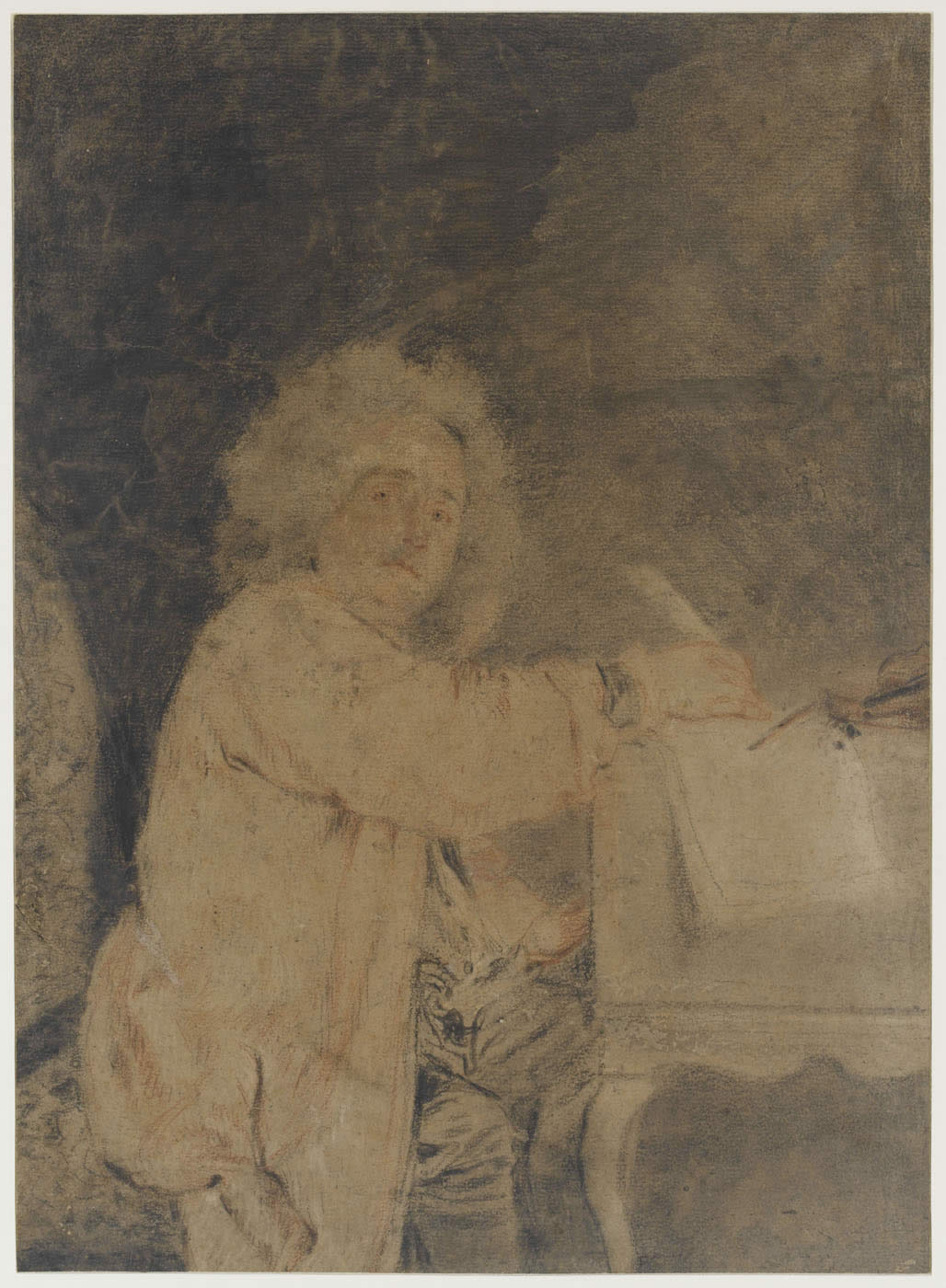 Drawing by Antoine Watteau of Jean-Féry Rebel (1666-1747), French composer